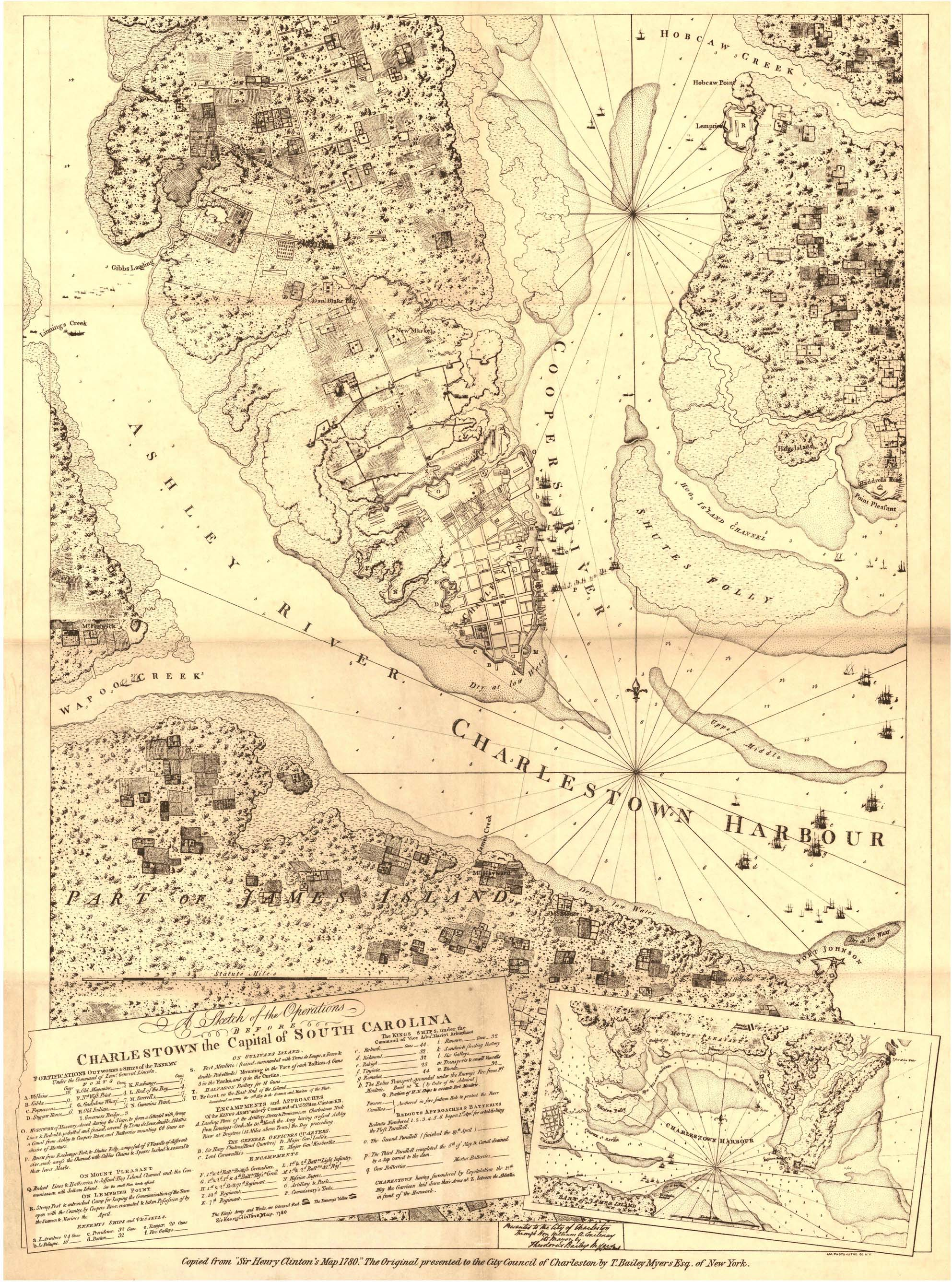 "A sketch of the operations before Charlestown, the capital of South Carolina"